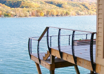 Curved Cable Railing over looking a Keuka lake.